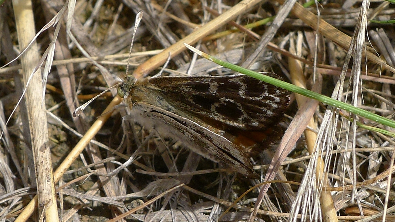 Male Golden Sun Moth, Synemon plana (Castniidae). Gundaroo Common, Gundaroo NSW Australia, December 2011.